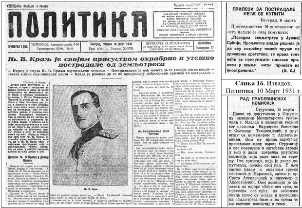 Politika 10 March 1931